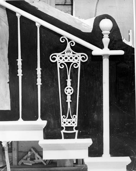 Harry S. Truman Library and Museum Design in plaster of the railing during renovation of the White House. Date: February 28, 1951 Accession number: 71-433